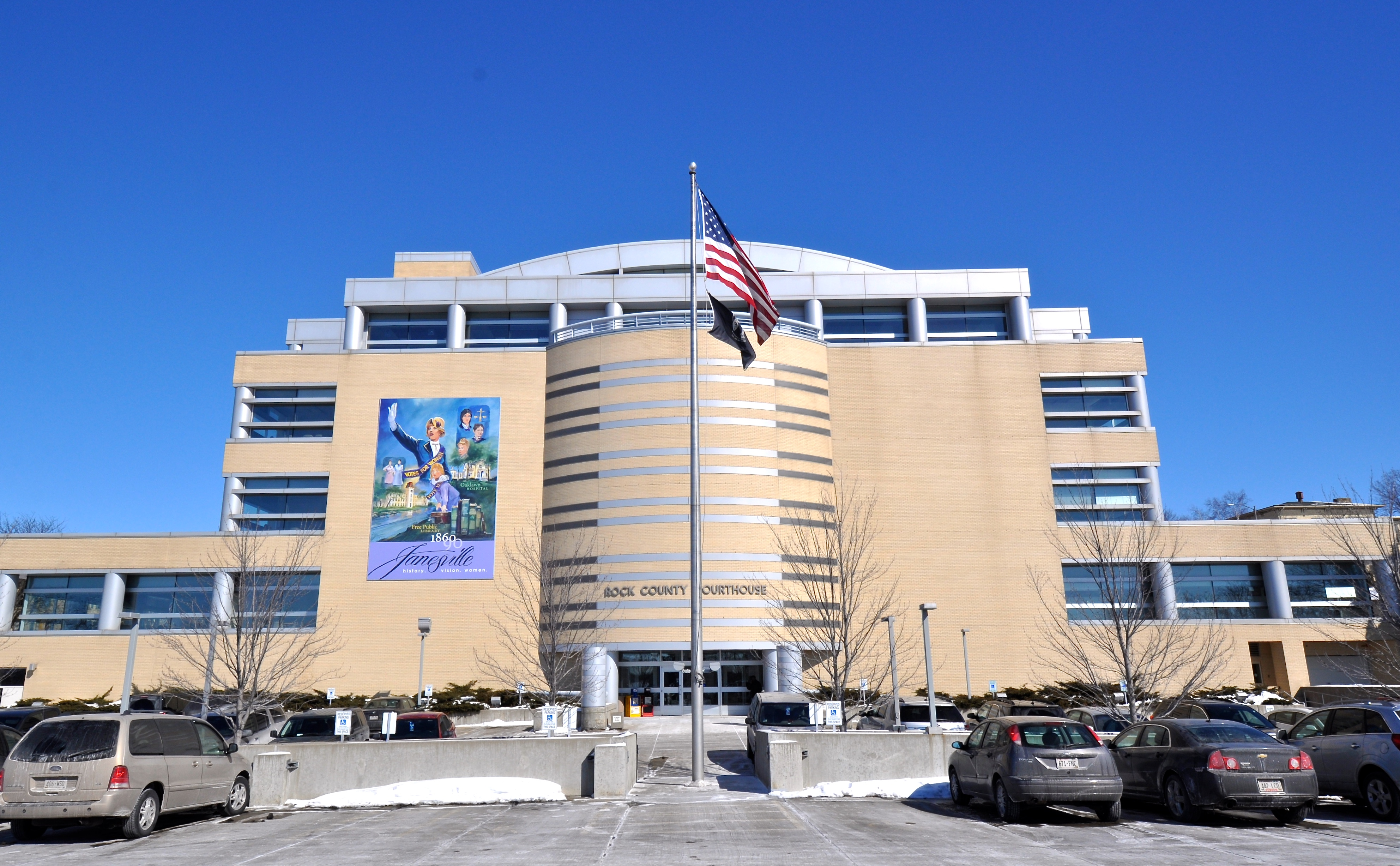 Rock County Courthouse in Janesville, Wisconsin.